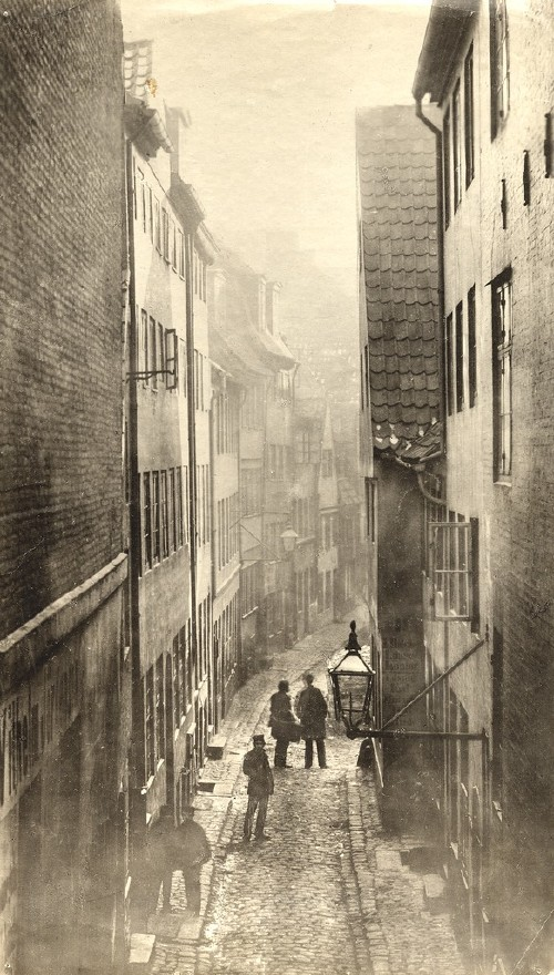 The now demolished Peder Madsens Gang in Copenhagen, Denmark. Replaced by Ny Østergade.